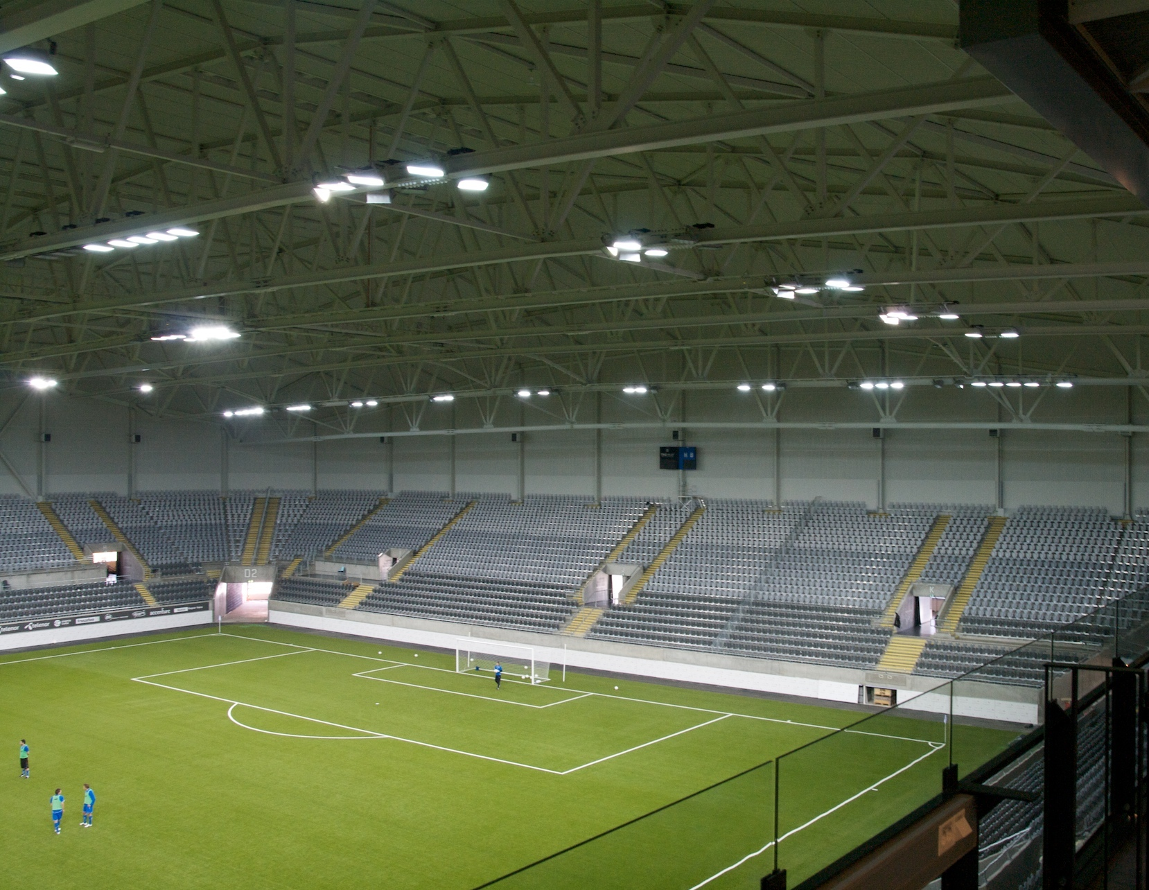 The fornebu nytt liv stand at telenor arena, seen from the press area